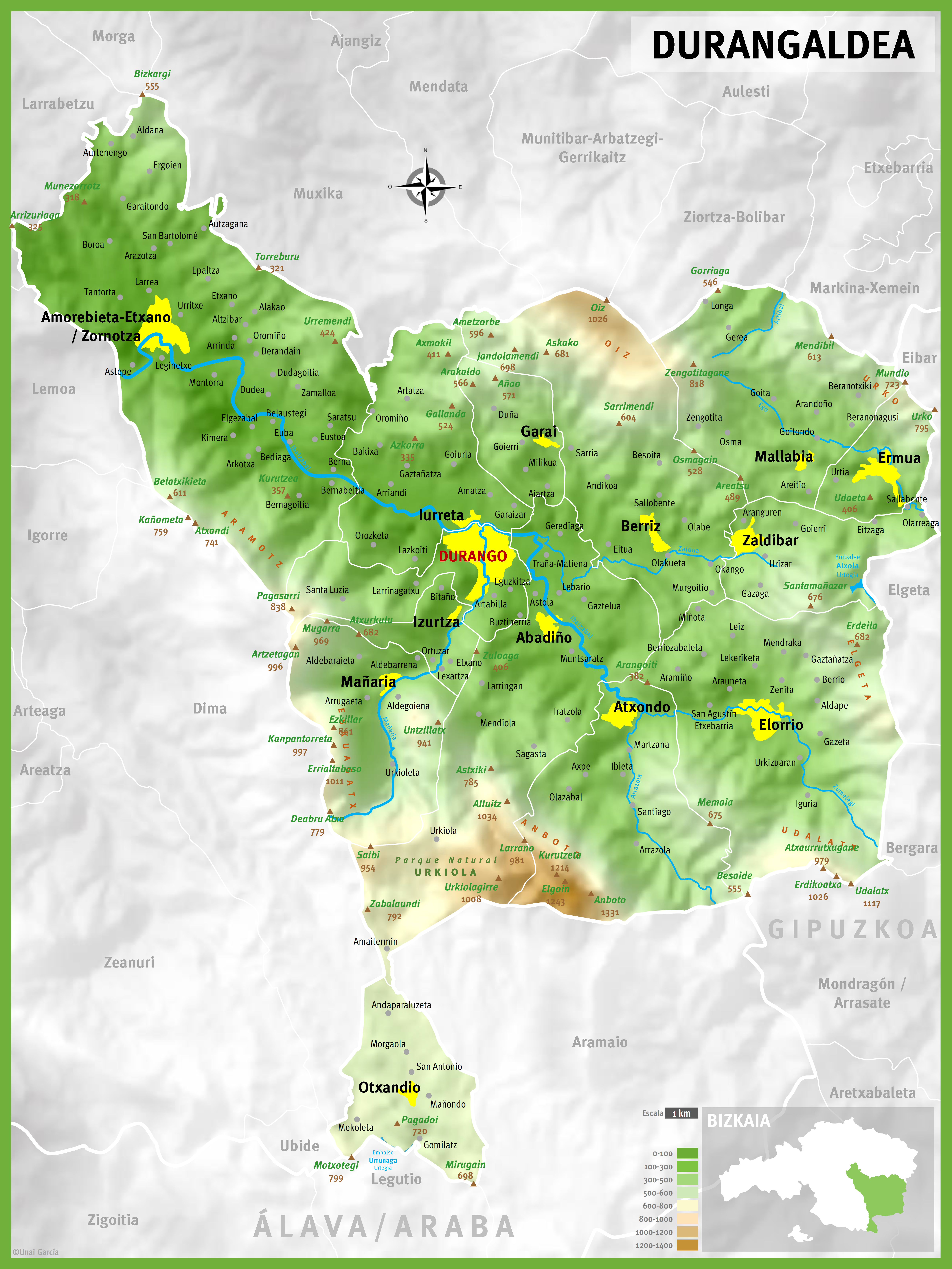 Map of Durangaldea